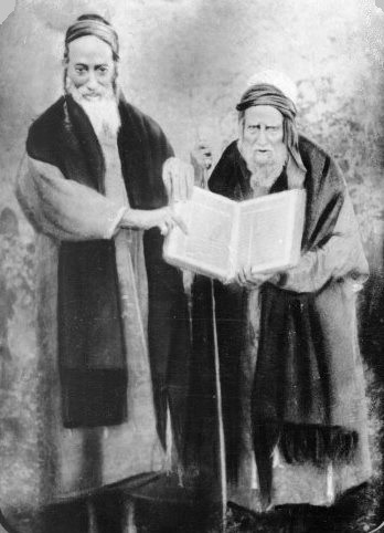 The man on the right is Jewish elder, Rabbi Hayim Qorah. The Man on the left is elder, Rabbi Haroun al-Kohen. Photo taken in 1904. I hope to post it in Other information The photo was scanned personally by me from an old collection of photos brought out of Yemen about 64 years ago, and which others have since made use of in various Israeli journals and booklets, since the photographer is unknown and the photo was taken in Yemen in 1904 - long before Copyright laws became effective.